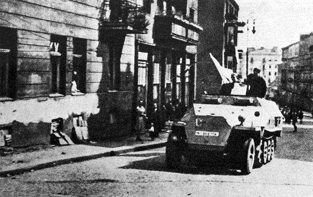 WarsawUprising: German armored fighting vehicle SdKfz 251 captured by the Polish insurgents, from 8-th "Krybar" Regiment, on Na Skarpie Boulevard on August 14, 1944 from 5th SS 'Viking' division. This picture taken on Tamka Street. The insurgents gave the vehicle name "Gray Wolf" and used it in attack on Warsaw University.